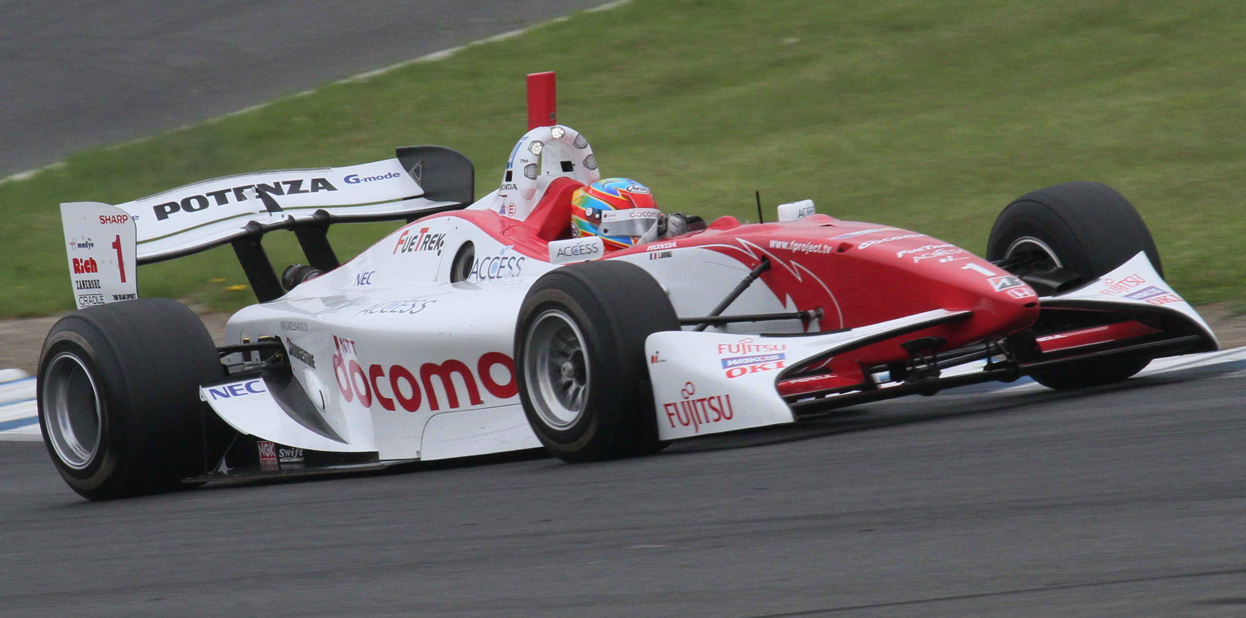 Formula Nippon 2010 Rd.2 Motegi: Loïc Duval (Docomo Team Dandelion Racing) during the Sunday free practice session.